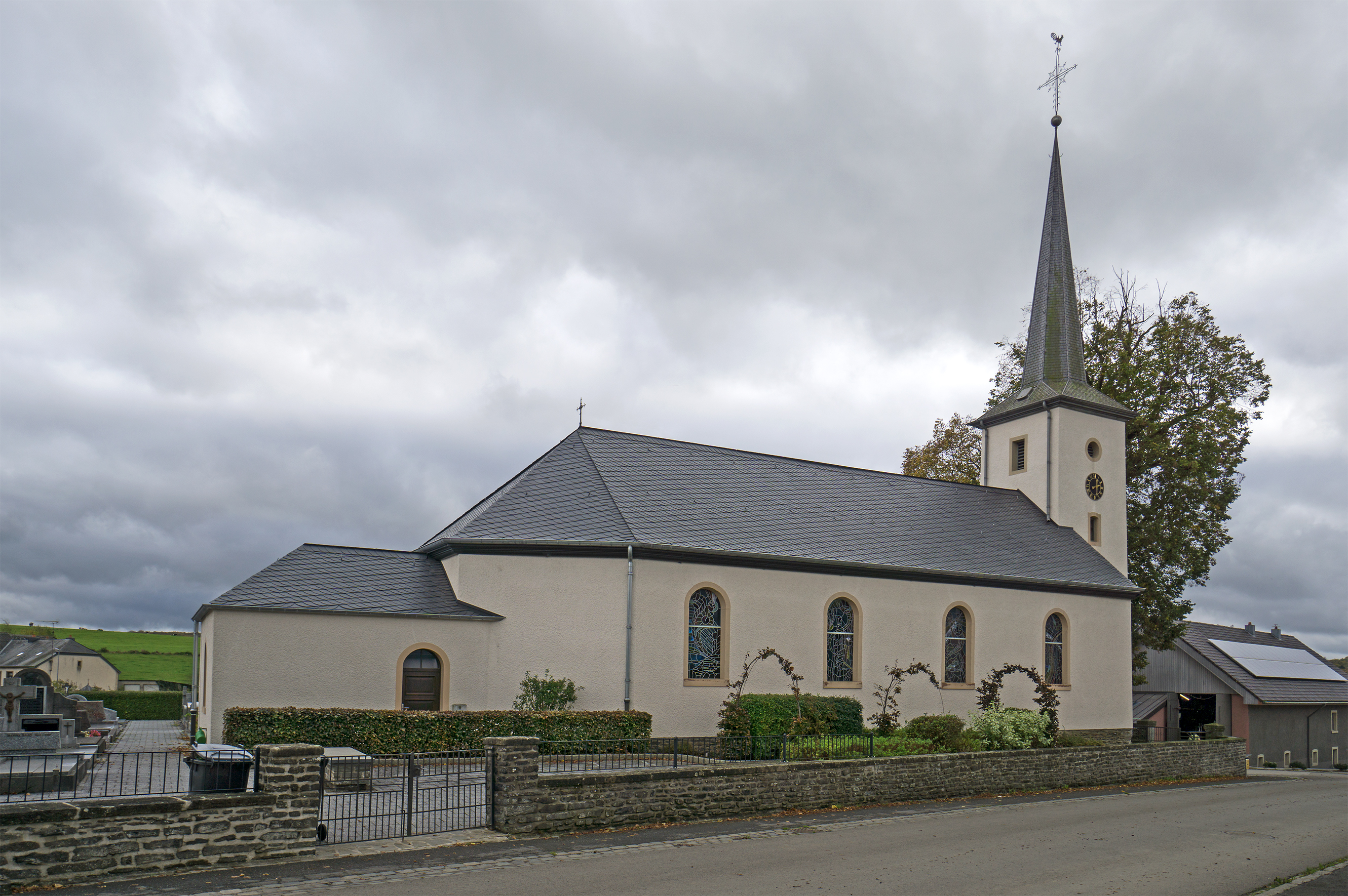 Church of Brachtenbach